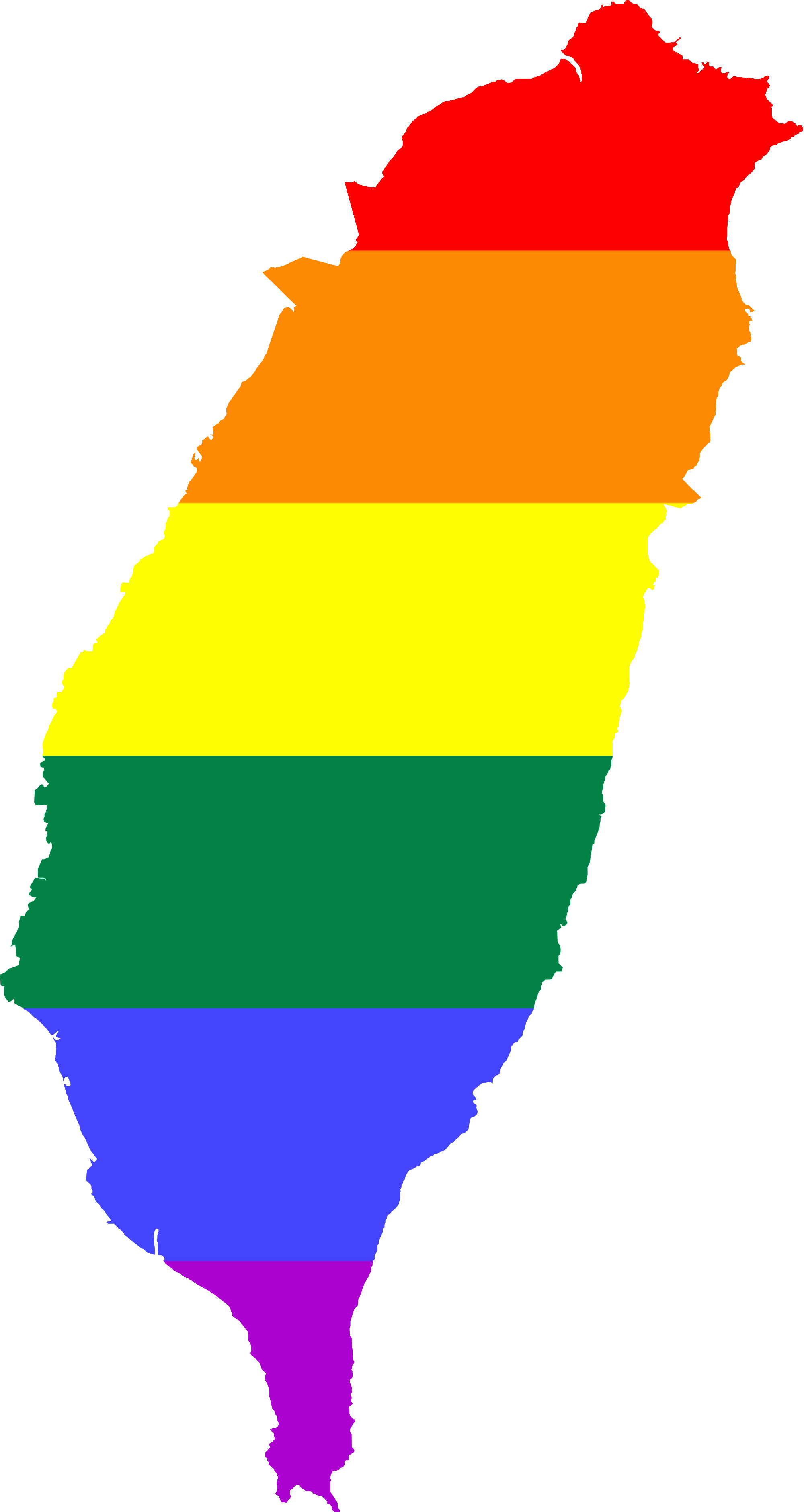 LGBT Flag map of Taiwan (ROC)